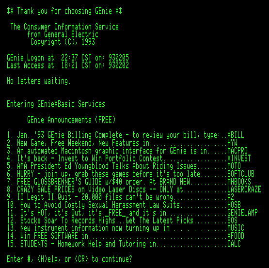 This is a re-creation of the a login to GEnie from Feb 1993, as it would appear on an Apple II.